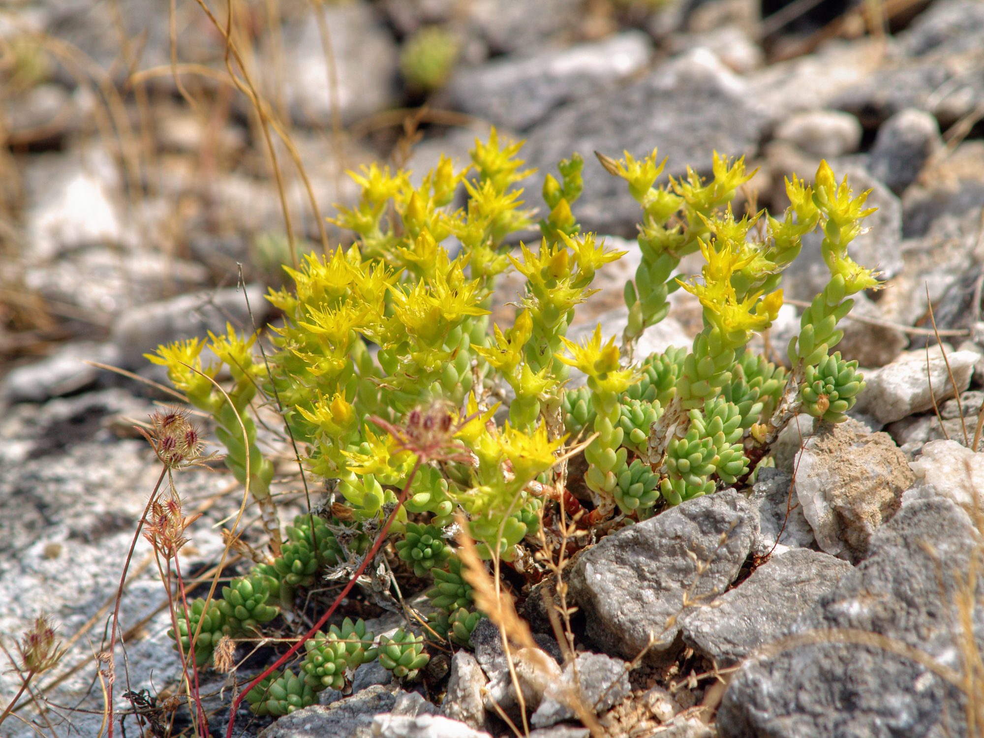 Sedum urvillei, Thasos, Greece